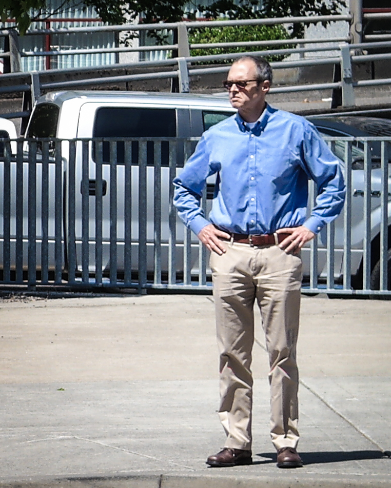 A photograph of the ordinary man